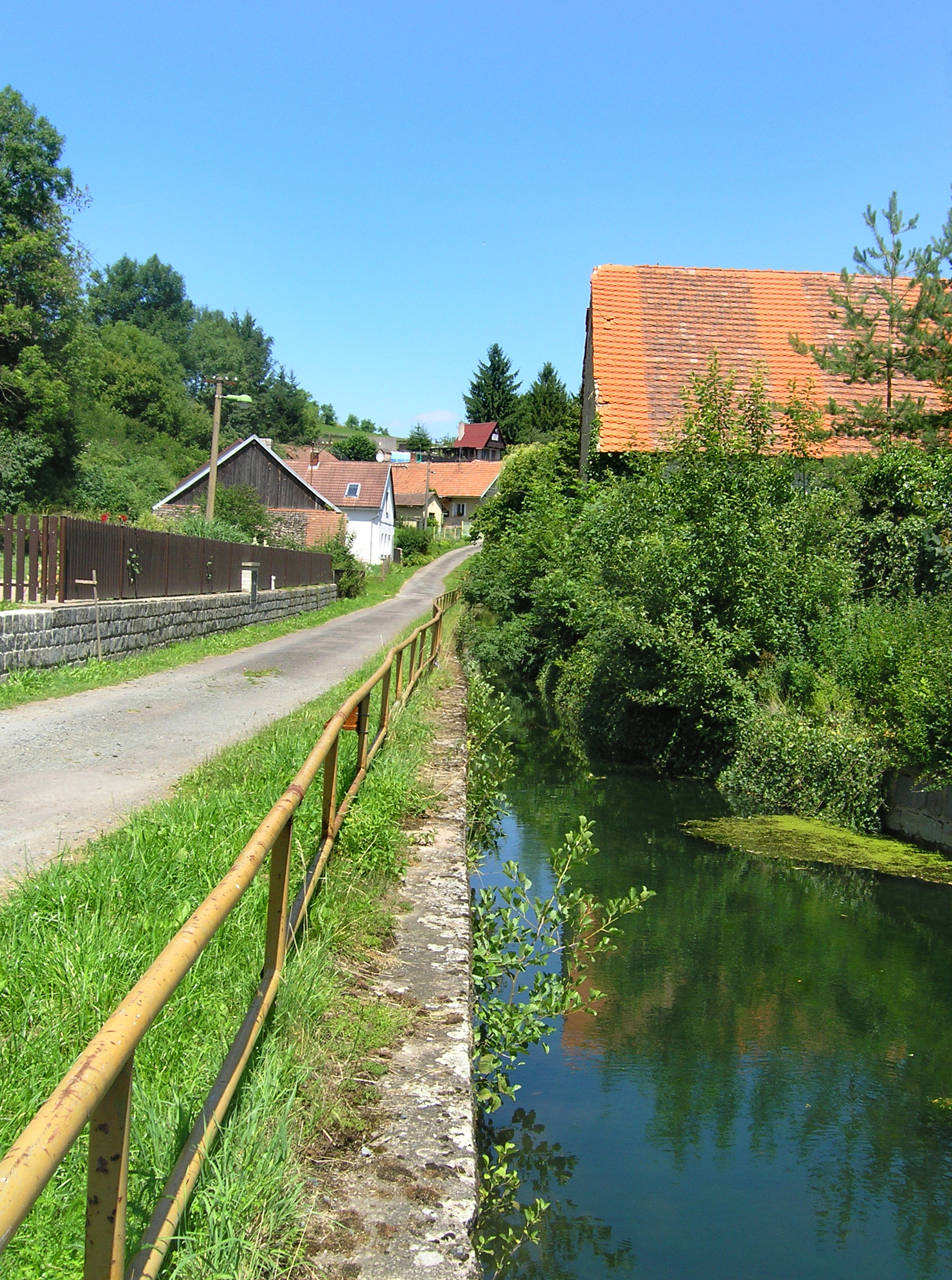 Kurvice Creek in Bousov village, Czech Republic